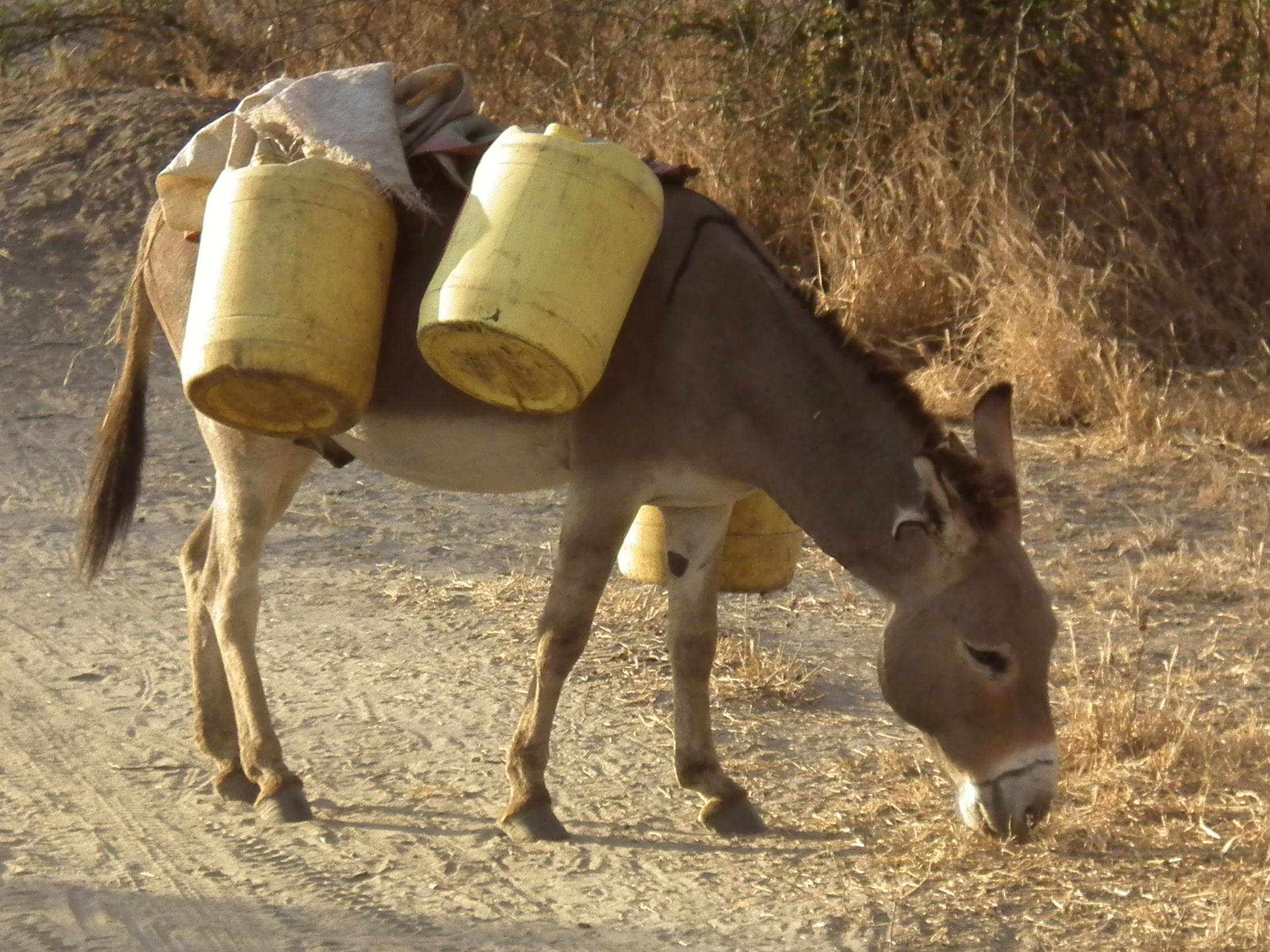 African Donkey, Equus asinus, in Tanzania